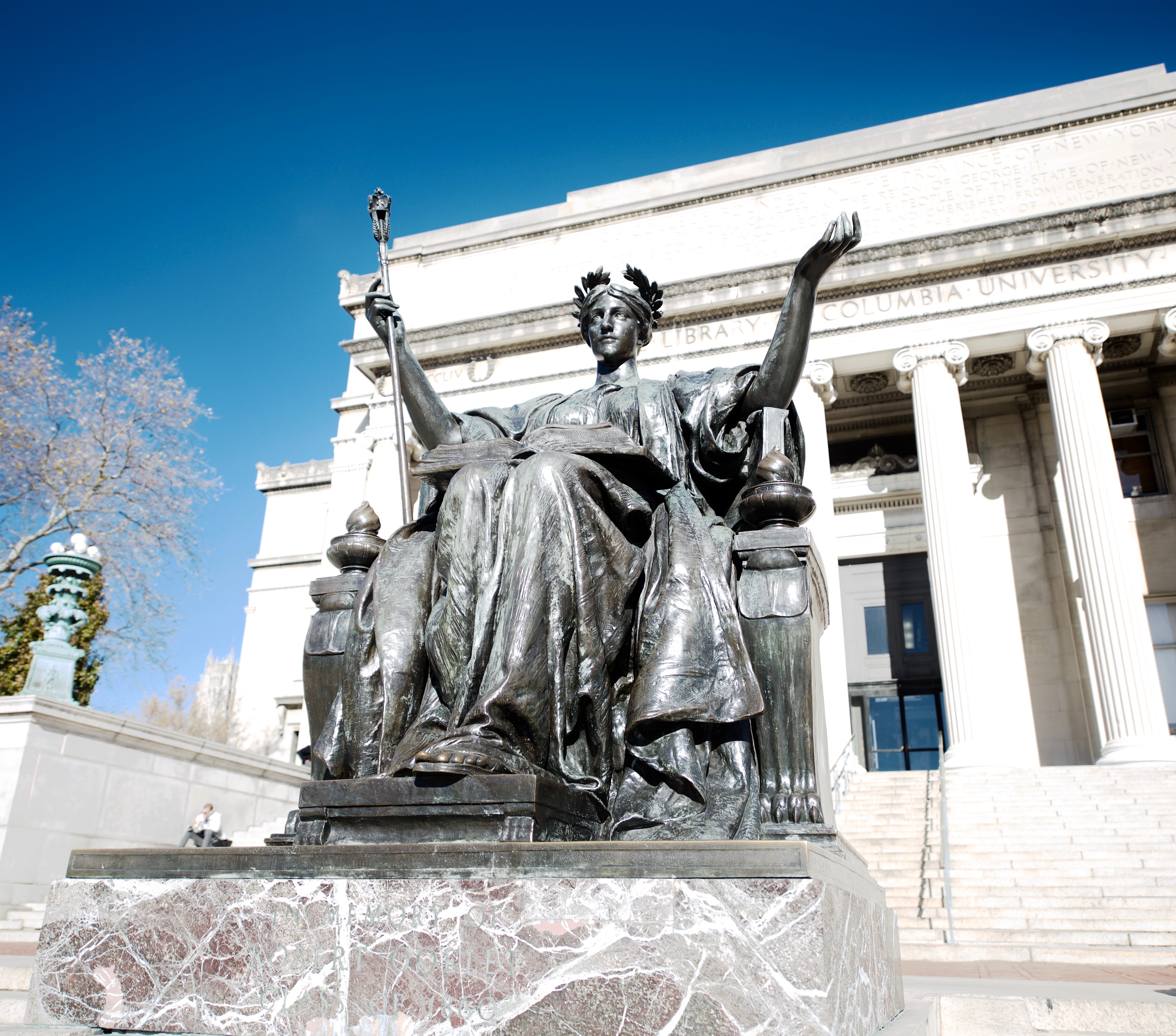 The Alma Mater in front of the Low Memorial Library, Columbia University.